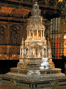 catedral de avila